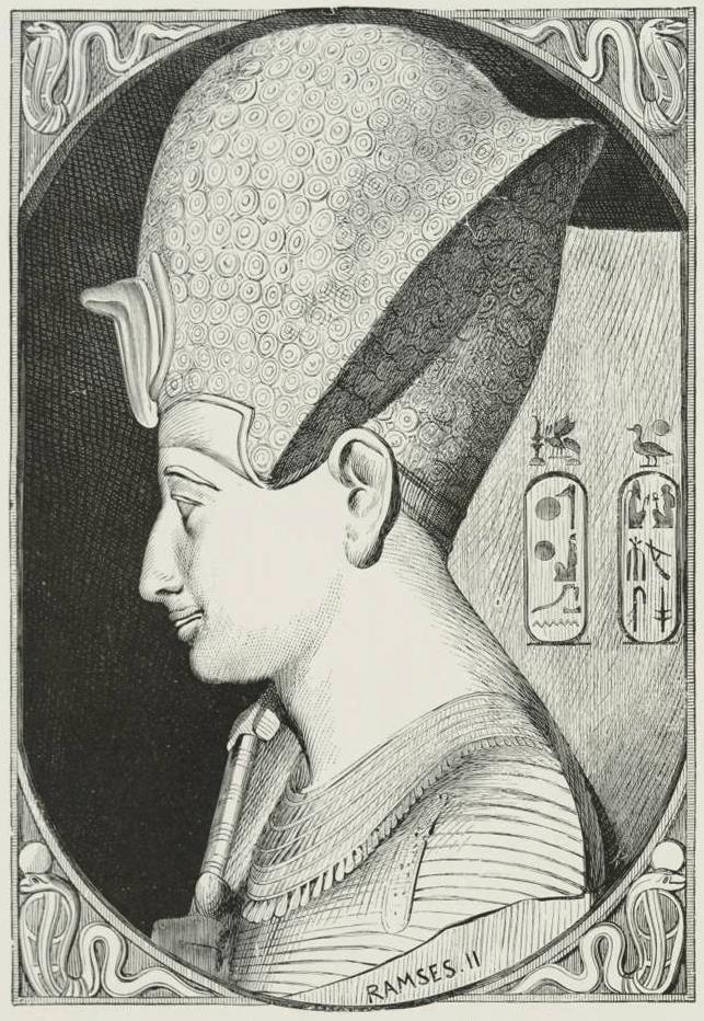 Bust of Ramses II.